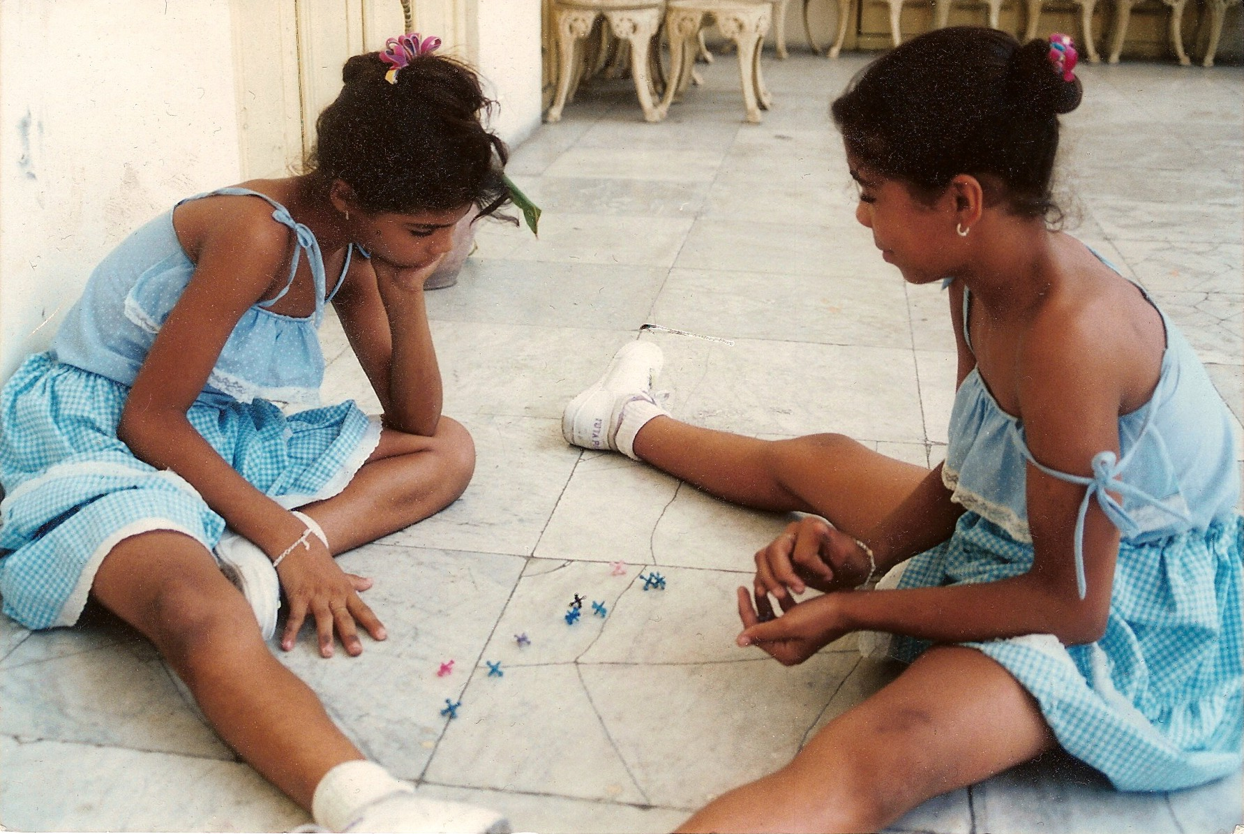 Ana and Pureza, identical twins.